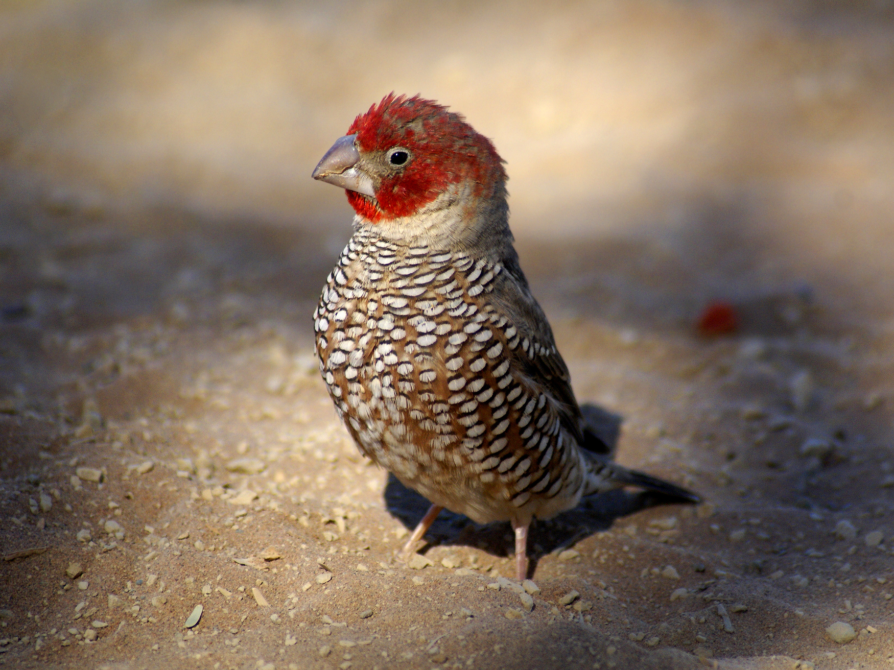 ♂ Red-headed Finch, at Sossusvlei, Namib desert, Namibia